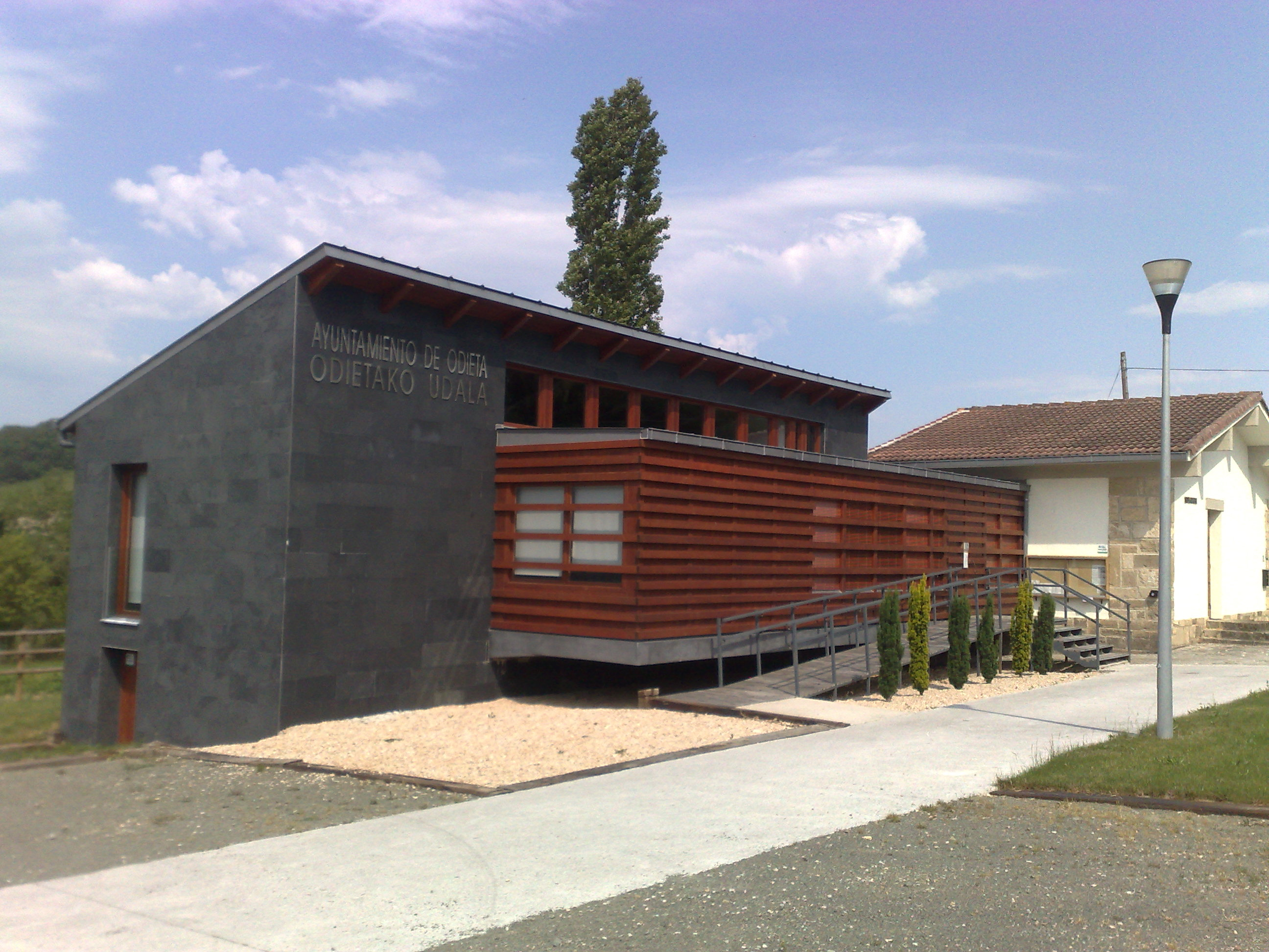 Council Hall of the valley of Odieta in Erripa, Navarre, Basque Country.